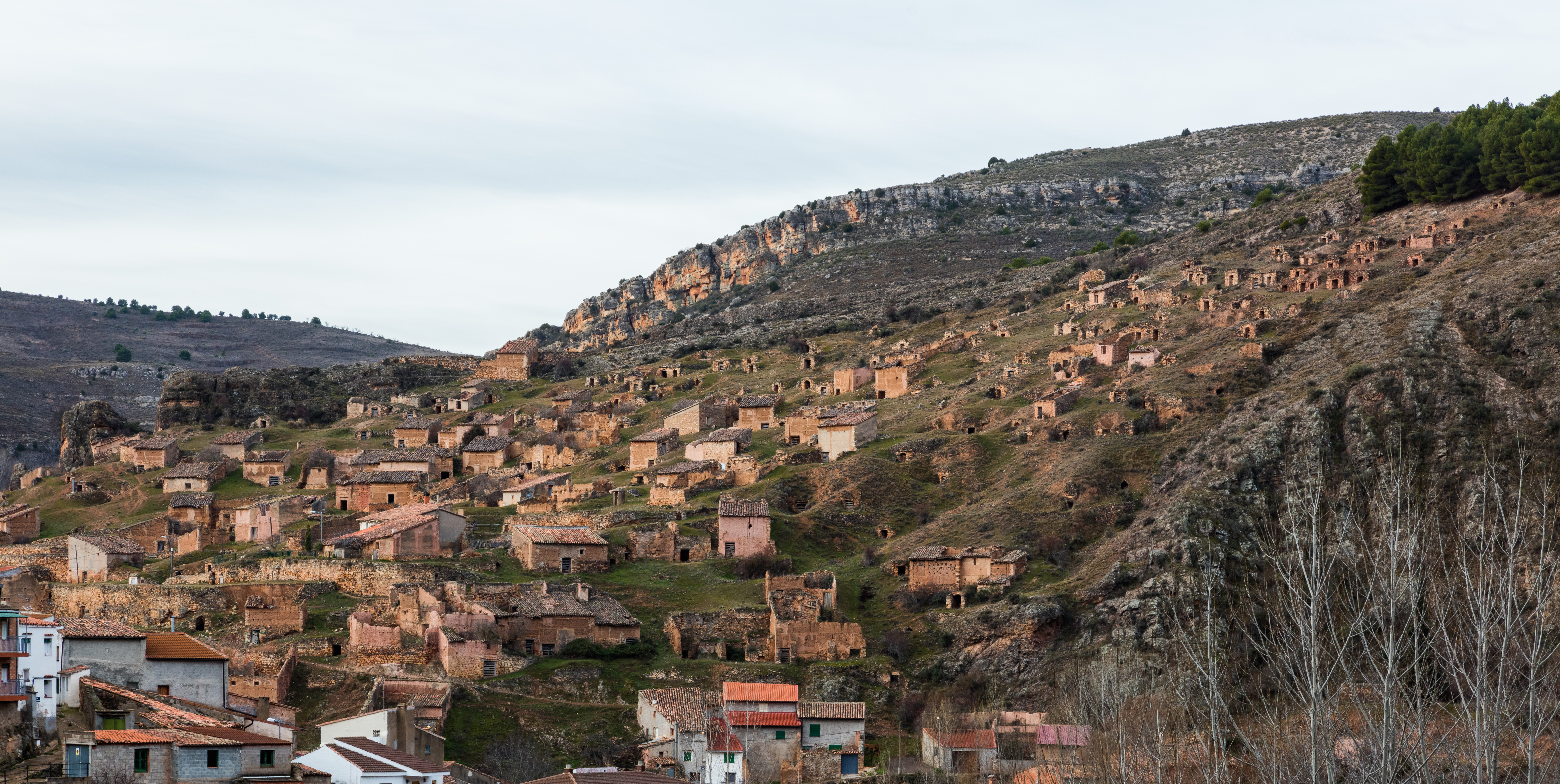 View of the cave-cellars, Torrijo de la Cañada, Zaragoza, Spain